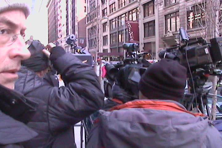 Photo of media waiting in vain outside Ashley Alexandra Dupré's apartment building the day after Eliot Spitzer's resignation